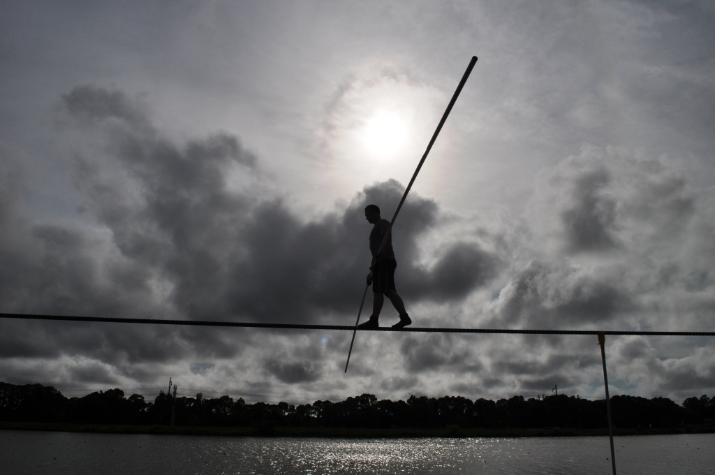 Nik Wallenda Trains for His June 23, 2013 Grand Canyon Walk at Nathan Benderson Park, Sarasota, Fla., June 7, 2013. This is from his 6 p.m. walk.